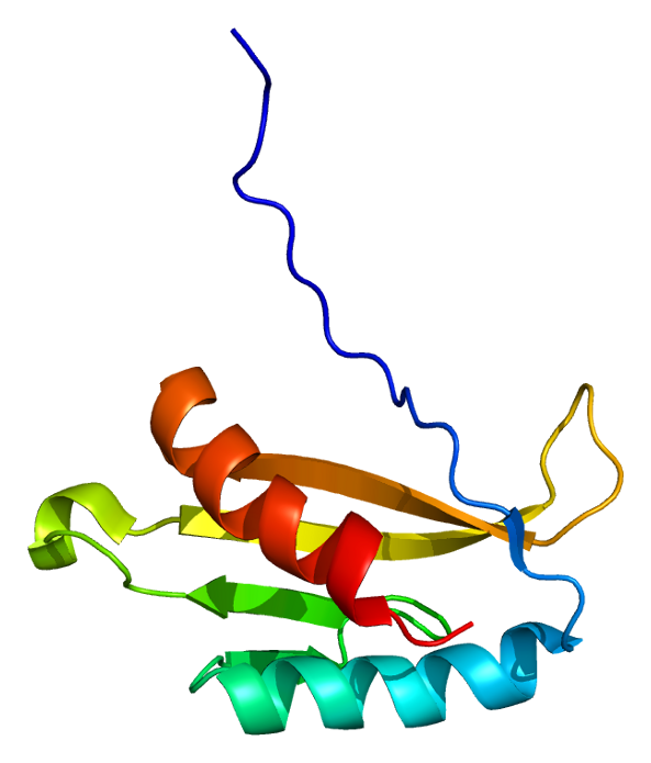 Structure of the MARK3 protein. Based on PyMOL rendering of PDB 1ul7.